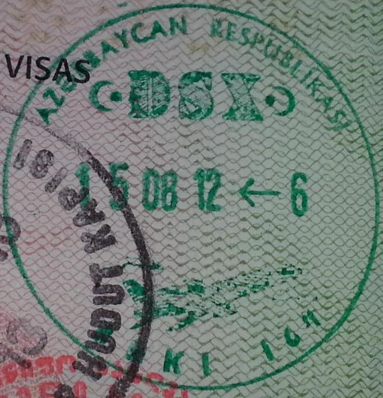 Entry stamp from Azerbaijan